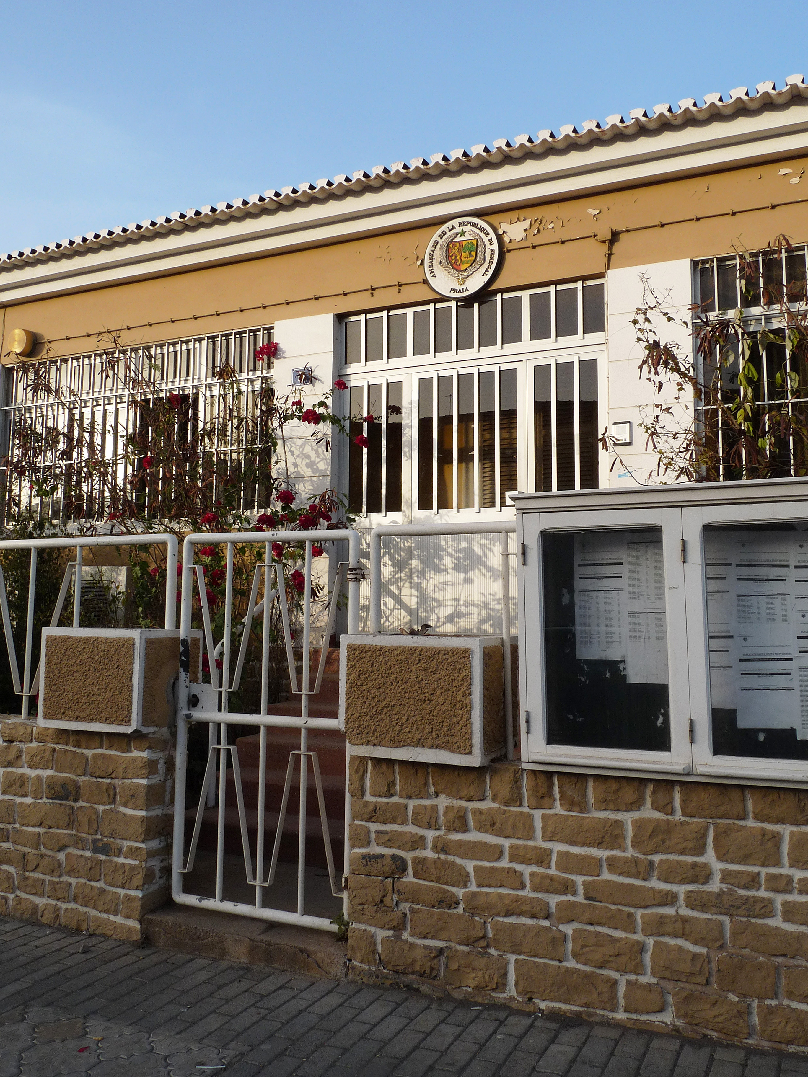 Embassy of Senegal in Praia, Cape Verde